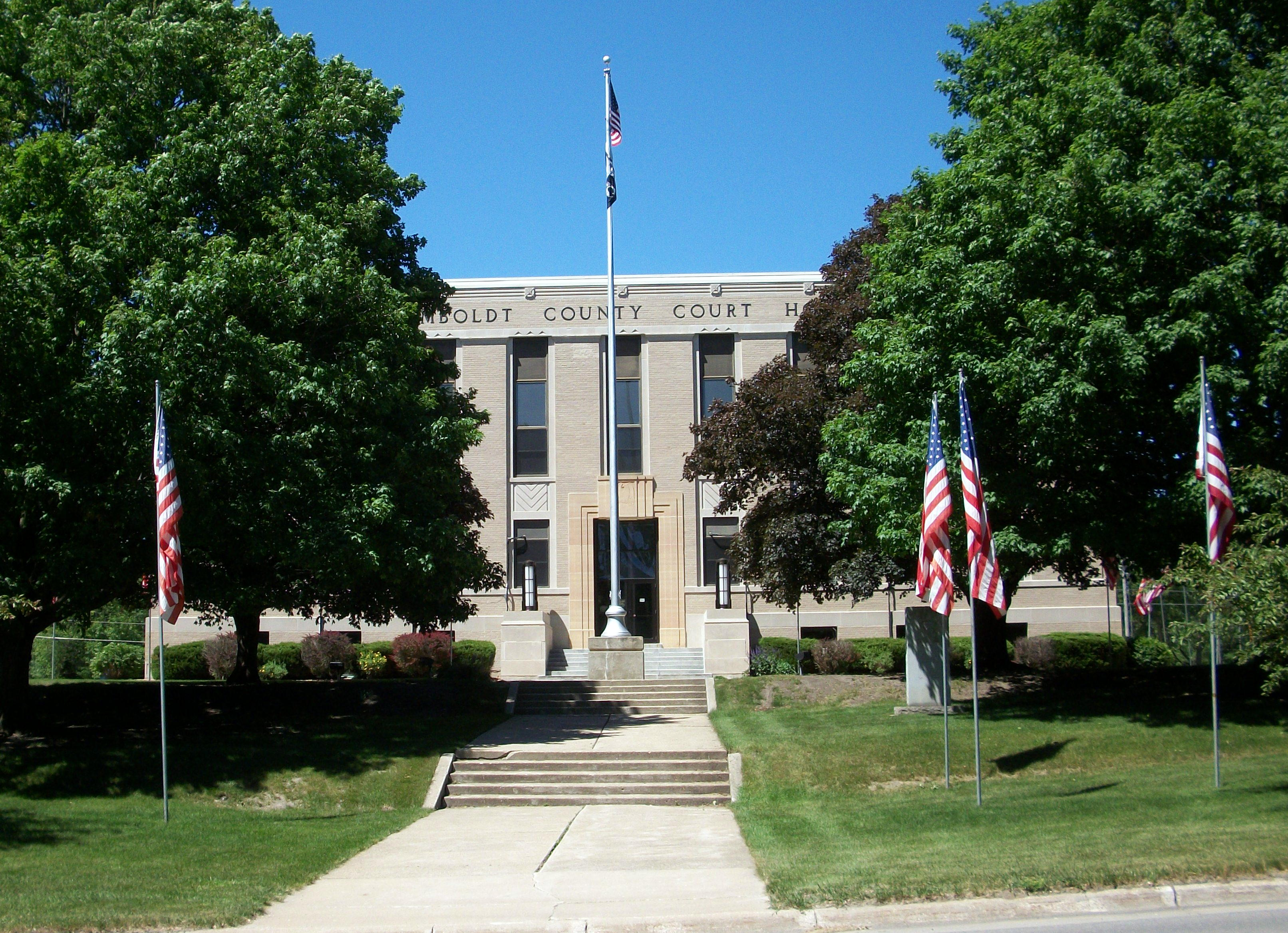 Humboldt County Courthouse in Dakota City, Iowa. The flags in front are up in observance of Memorial Day.